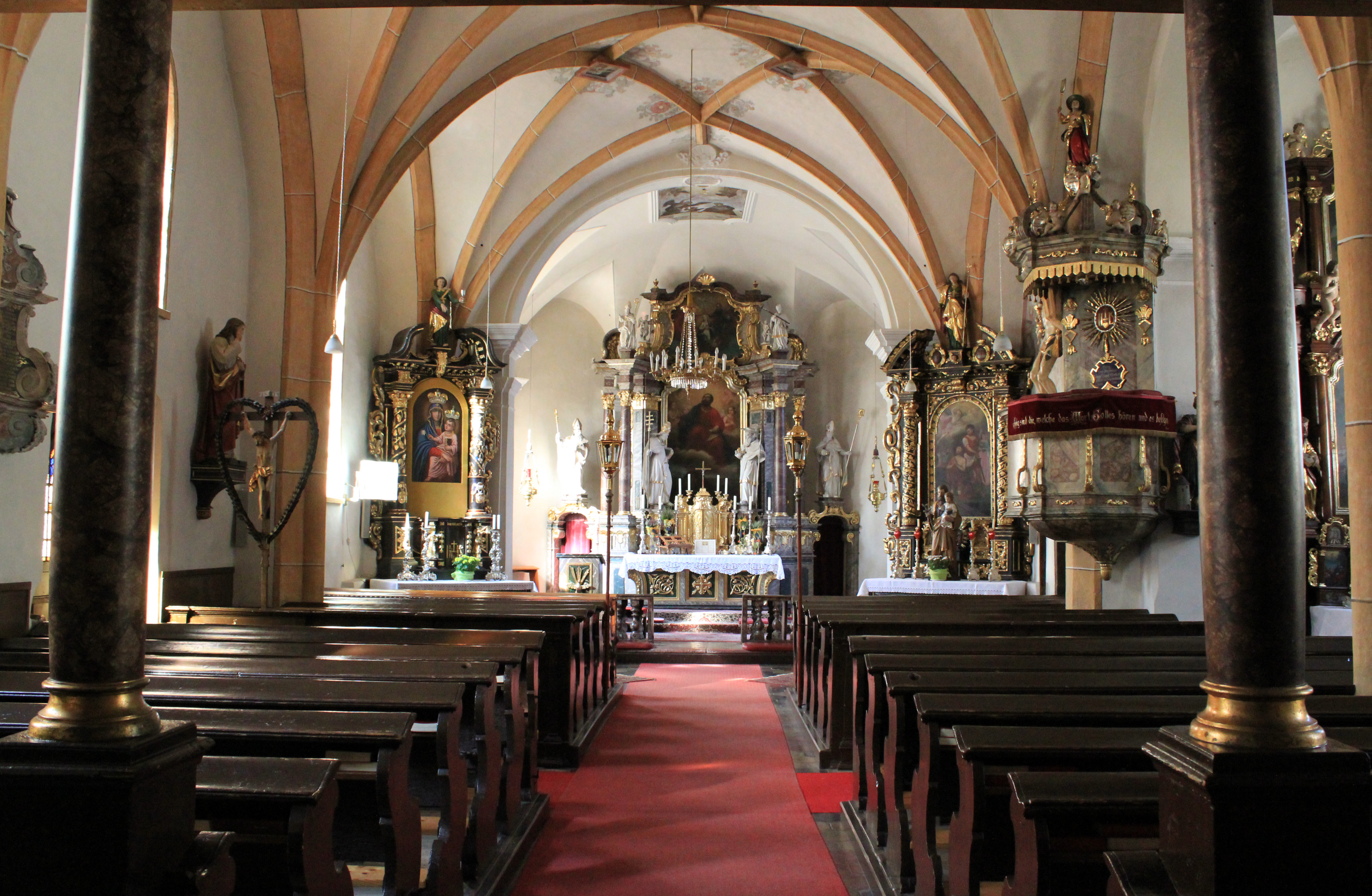 Church of Mauthen in the community of Kötschach-Mauthen - Interior